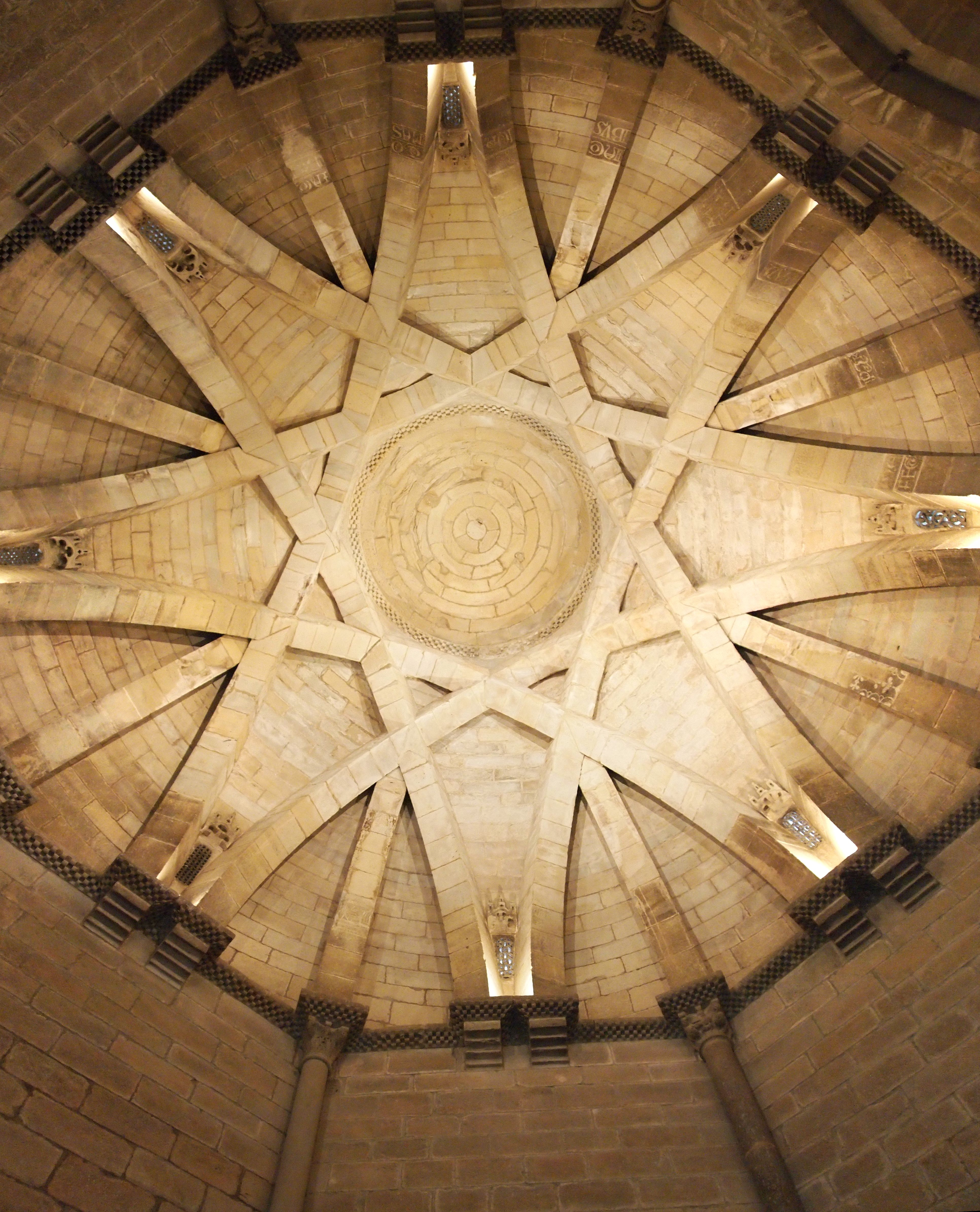 Vault of the Church of the Holy Sepulchre in Torres del Río